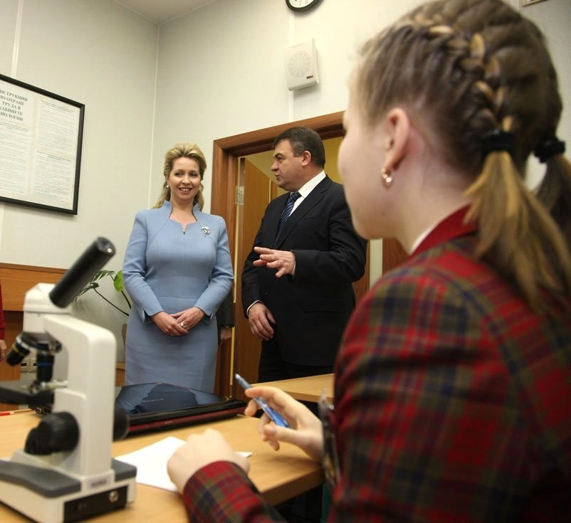 Ahead of the International Women’s Day celebrated on March 8, Svetlana Medvedeva visited an educational institution for girls created to provide education for daughters of Russia’s Armed Forces personnel.